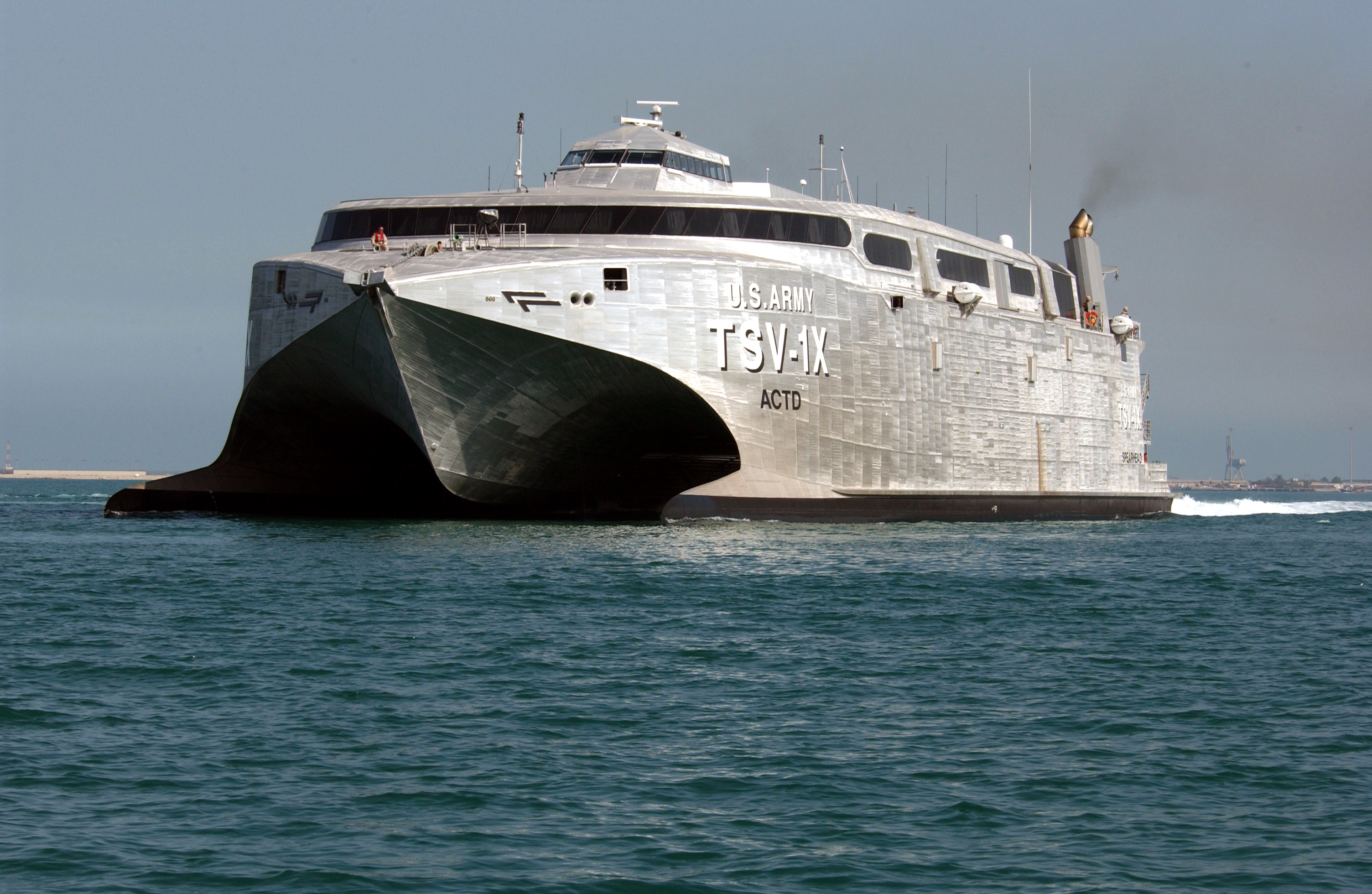 Central Command Area of Responsibility (Jan. 27, 2003) -- United States Army Vessel (USAV) Theater Support Vessel (TSV-1X) Spearhead arrives at a port within the Central Command Area of Responsibility. The 98 meter-long wave-piercing catamaran has an average speed of 40+ knots and will be utilized on missions which can take advantage of its speed and flexibility when transporting troops and cargo. The Spearhead is forward-deployed in support of Operation Enduring Freedom. U.S. Navy photo by Photographer’s Mate 1st Class Shawn Eklund. (RELEASED)